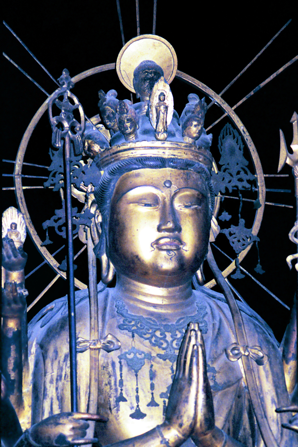 Senju Kannon, dated 1251-1256, from the Rengeo-in, Kyoto. Now kept in the Tokyo National Museum. This sculpture comes from the Hondo of Rengeo-in. It is from the hand of Tankei (1173-1256). Senju = "Thousand-arms," signifying the power of this Kannon to save all sentient beings.